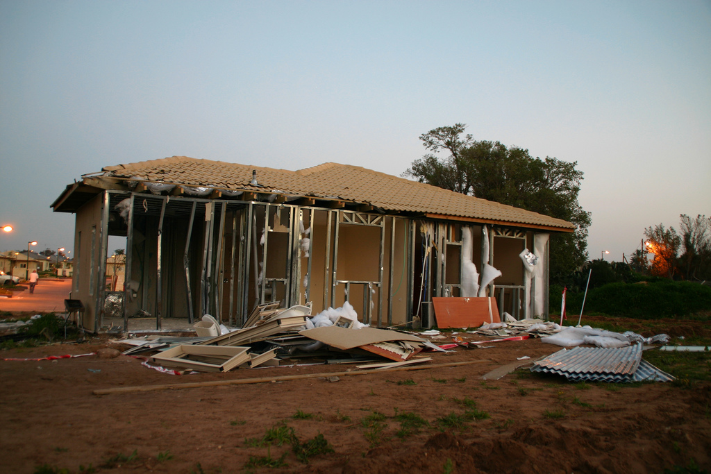 A day after after a Qassam rocket hit Kibutz Carmia, seriously wounding a 7-months baby - the house was pillaged.